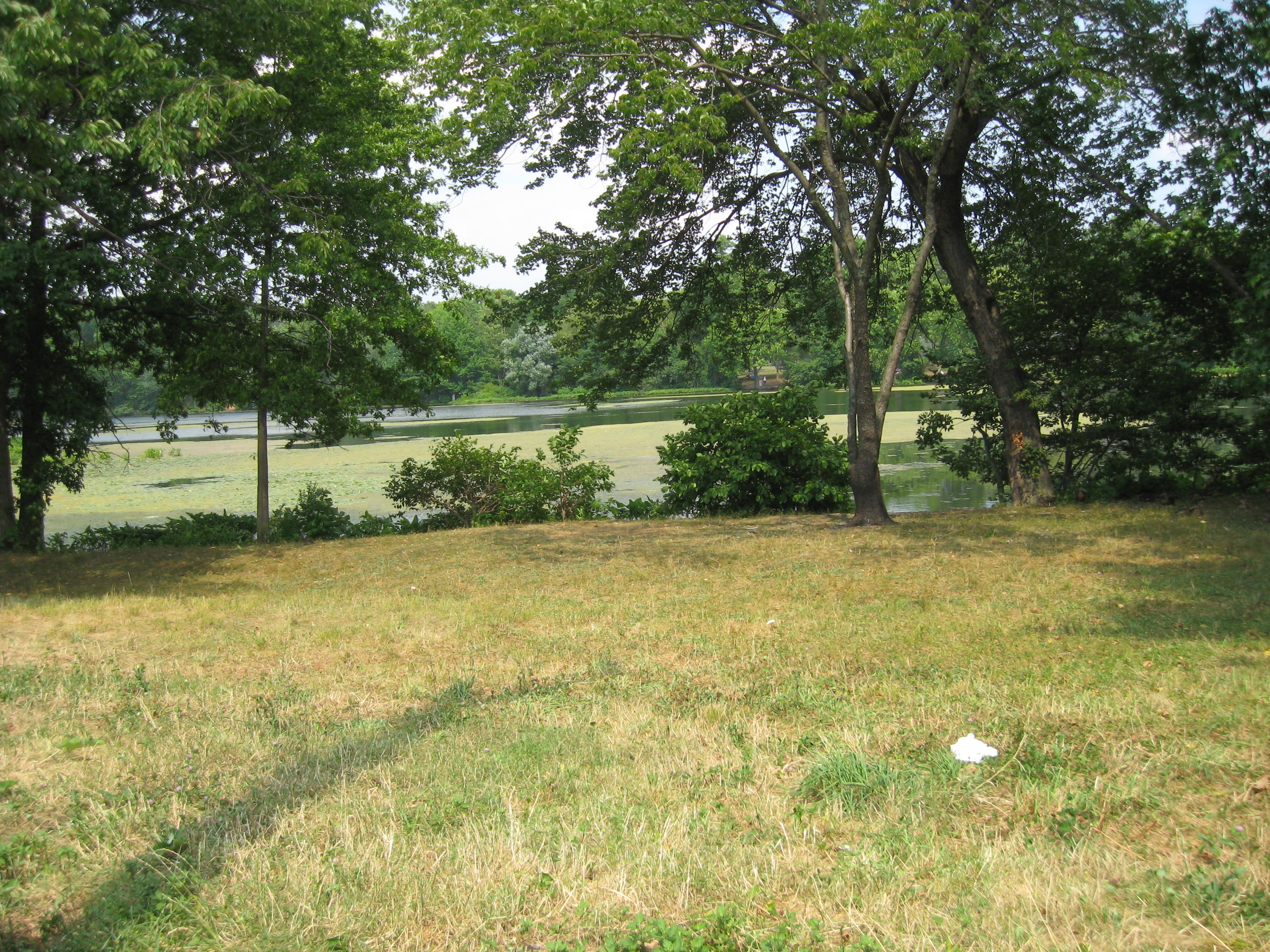 Looking north at Wolfe's Pond in Wolfe's Pond Park on a sunny early afternoon of July 2008